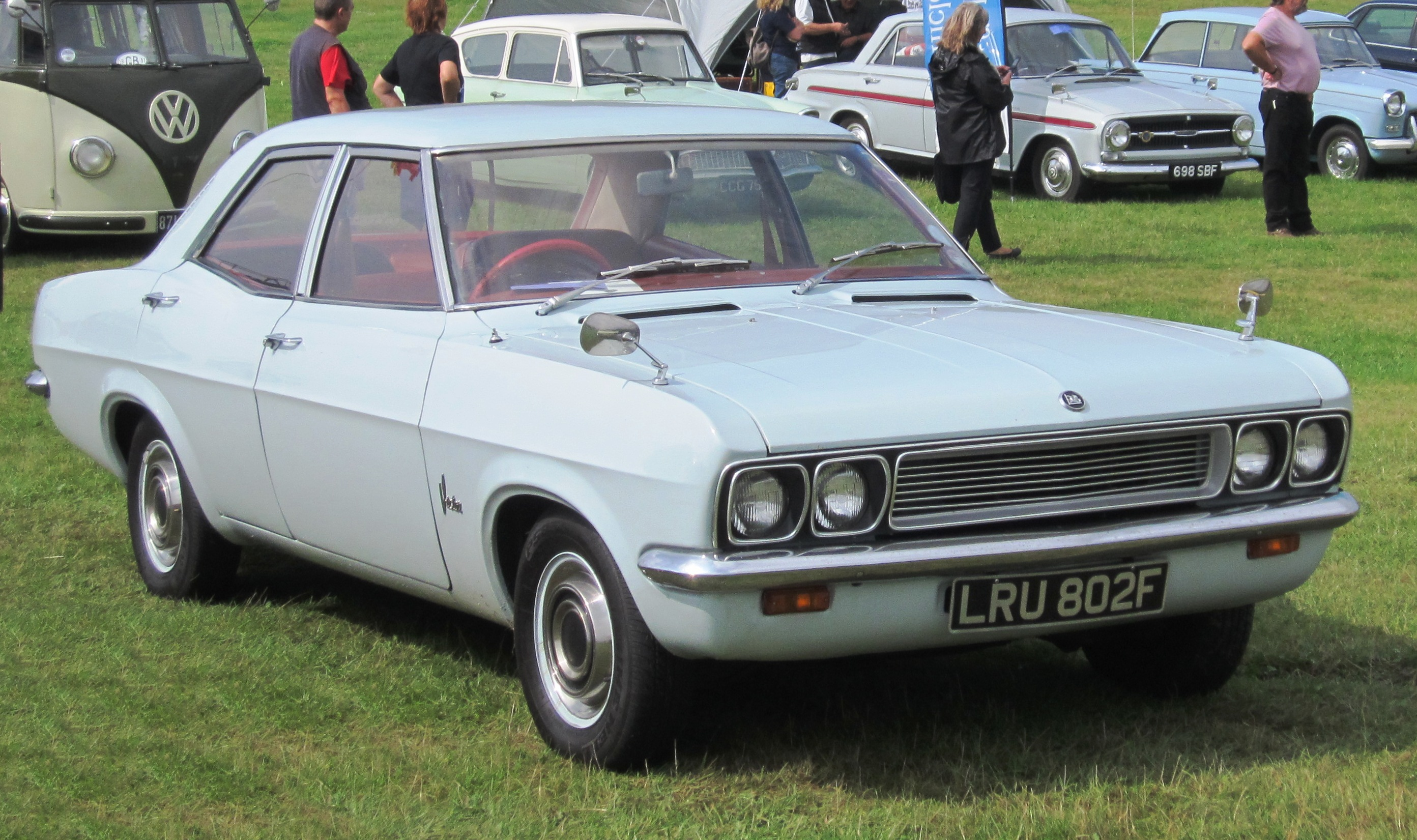 Vauxhall Victor FD (1968)